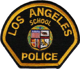 LASPD